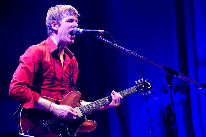 Spoon @ Astor Theatre (14/5/2010)